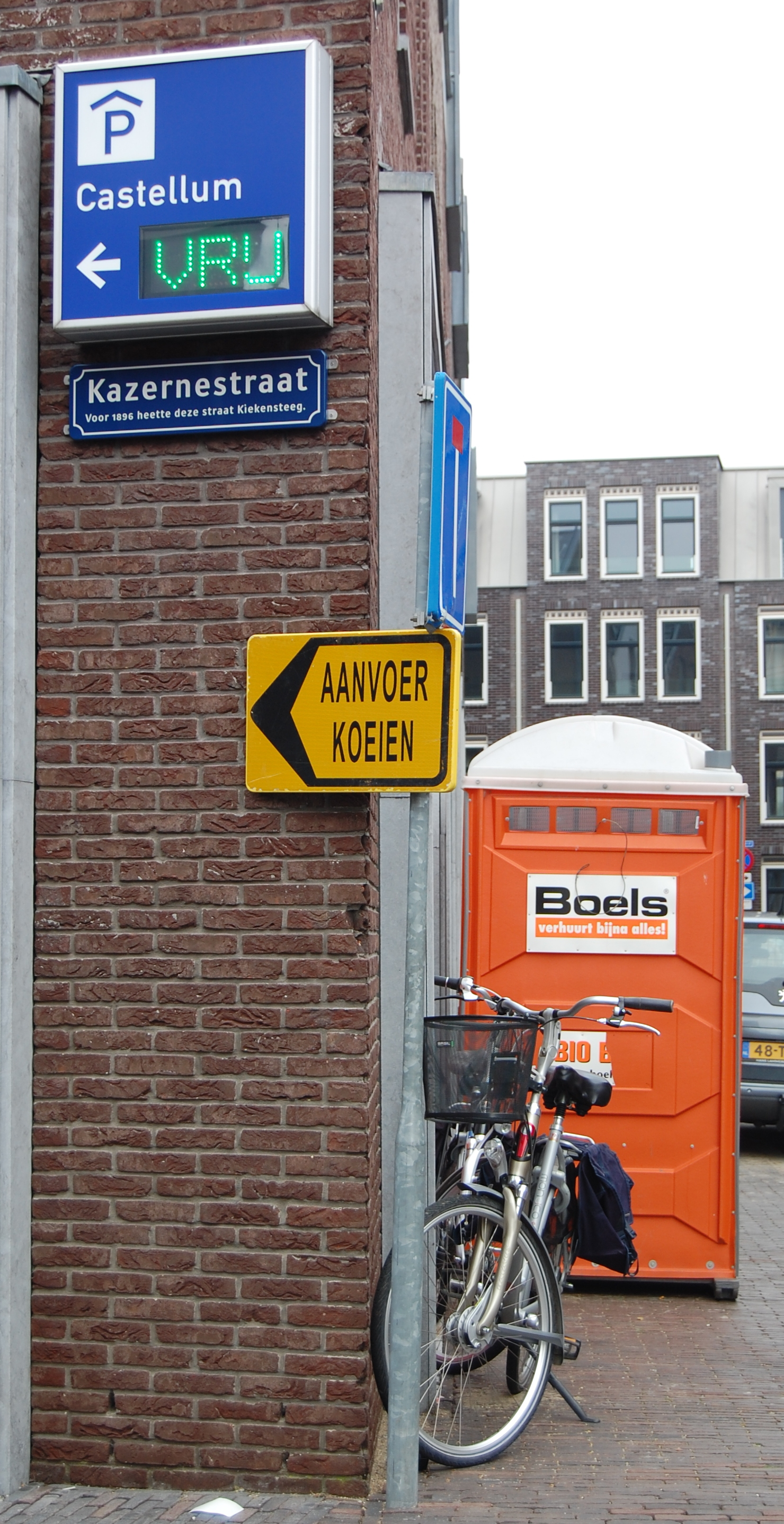 Signboard for directions of cows on yearly market in Woerden